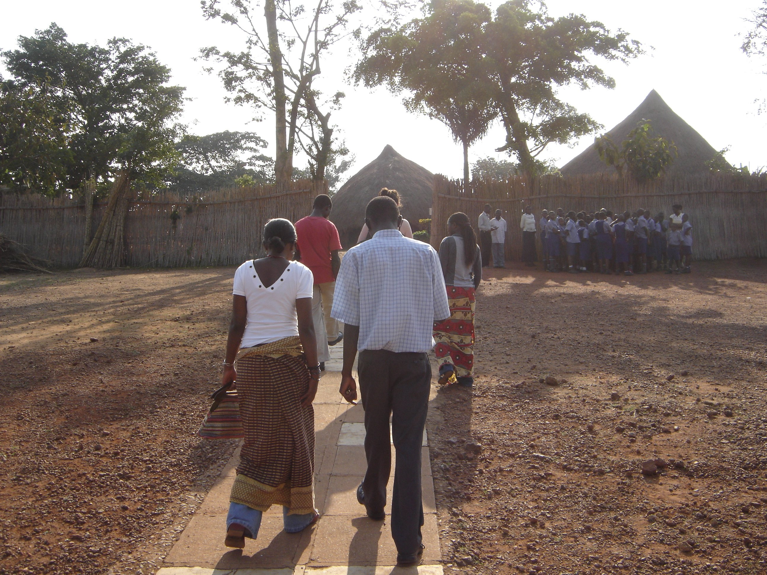 Leaving the Kasubi Tombs (with Nicole and her family)